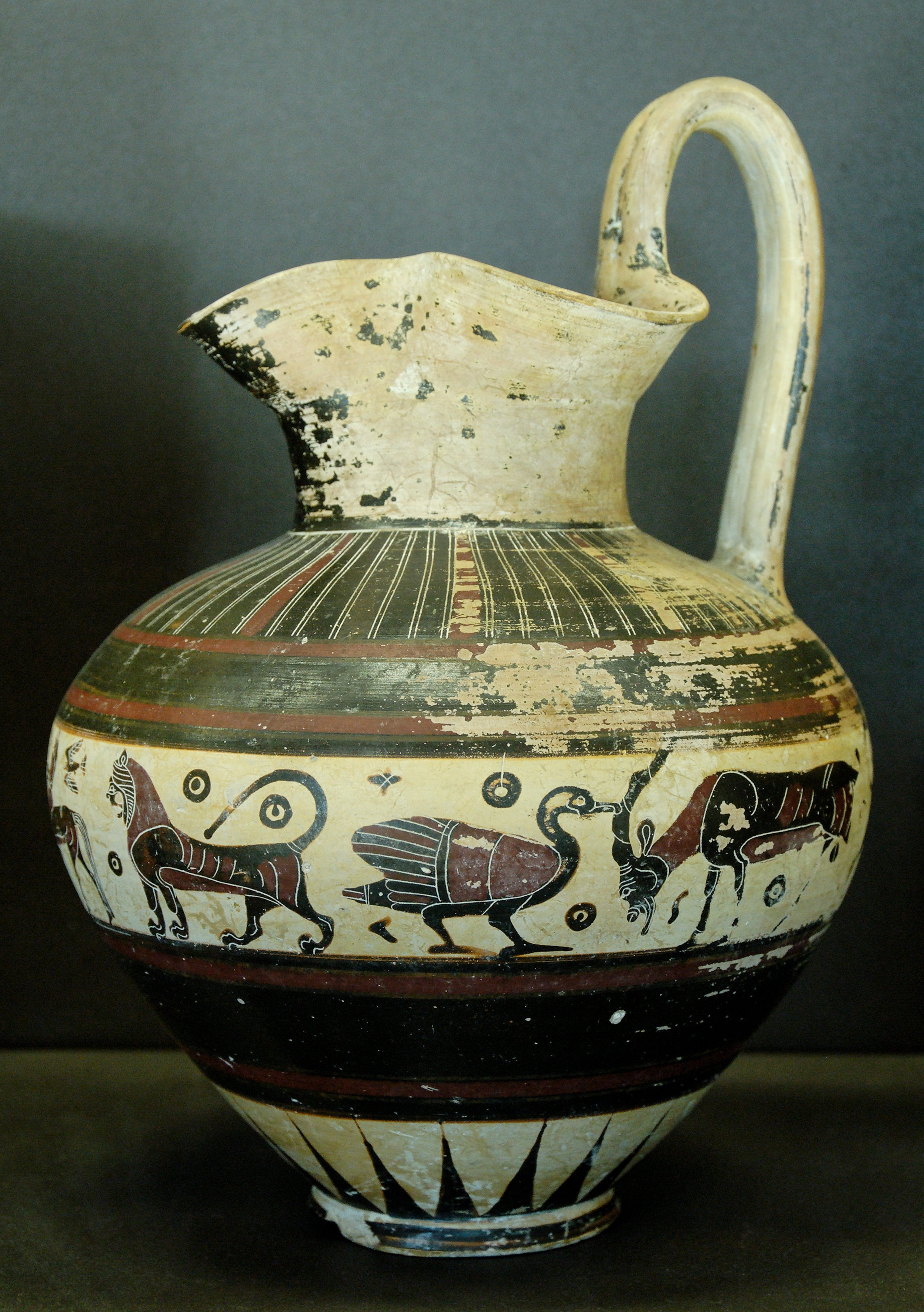 Rider (barely seen on the far left-hand side of the vase) and animals, maybe a hunting scene. Protocorinthian oinochoe, ca. 640-620 BC. From Kameiros, Rhodes.